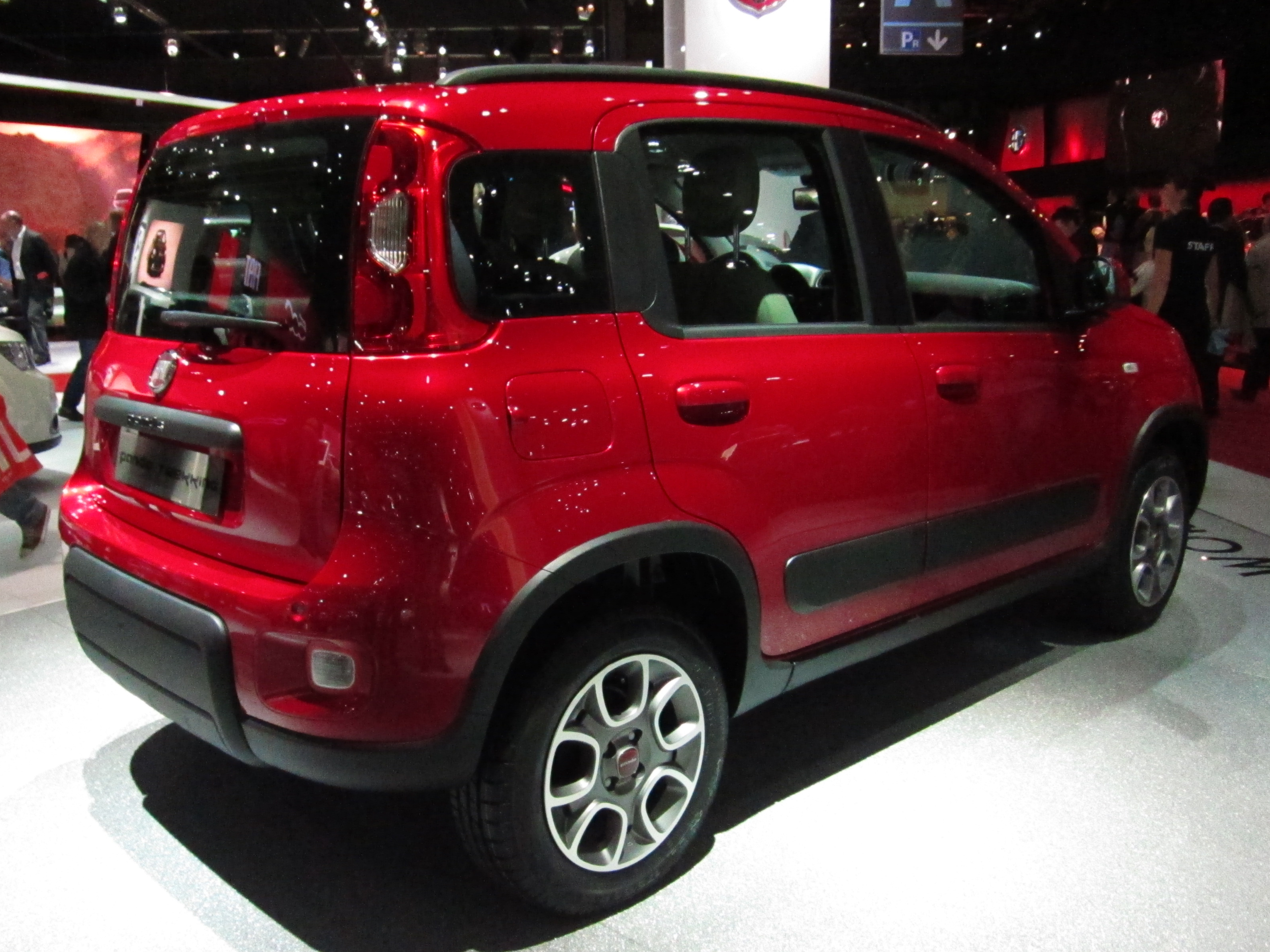 Fiat Panda Trekking at Mondial de l'Automobile Paris 2012